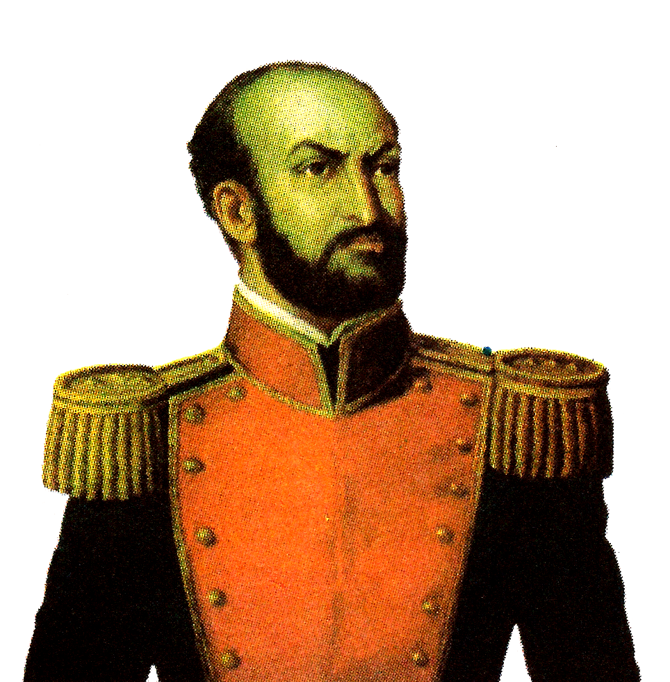 José Tomas Boves, named by slaves like "El Taita"